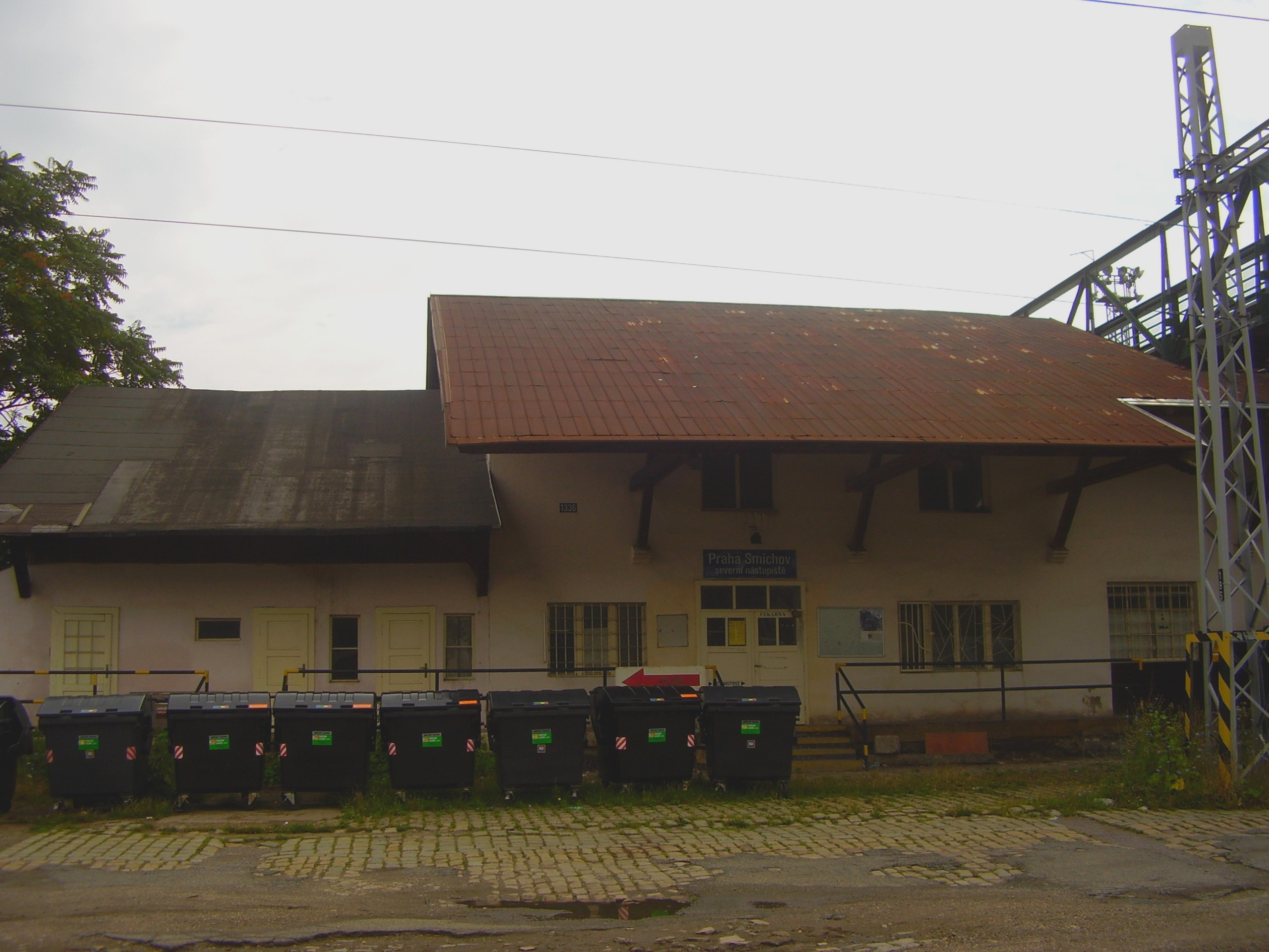 Train station Praha-Smíchov, north platform